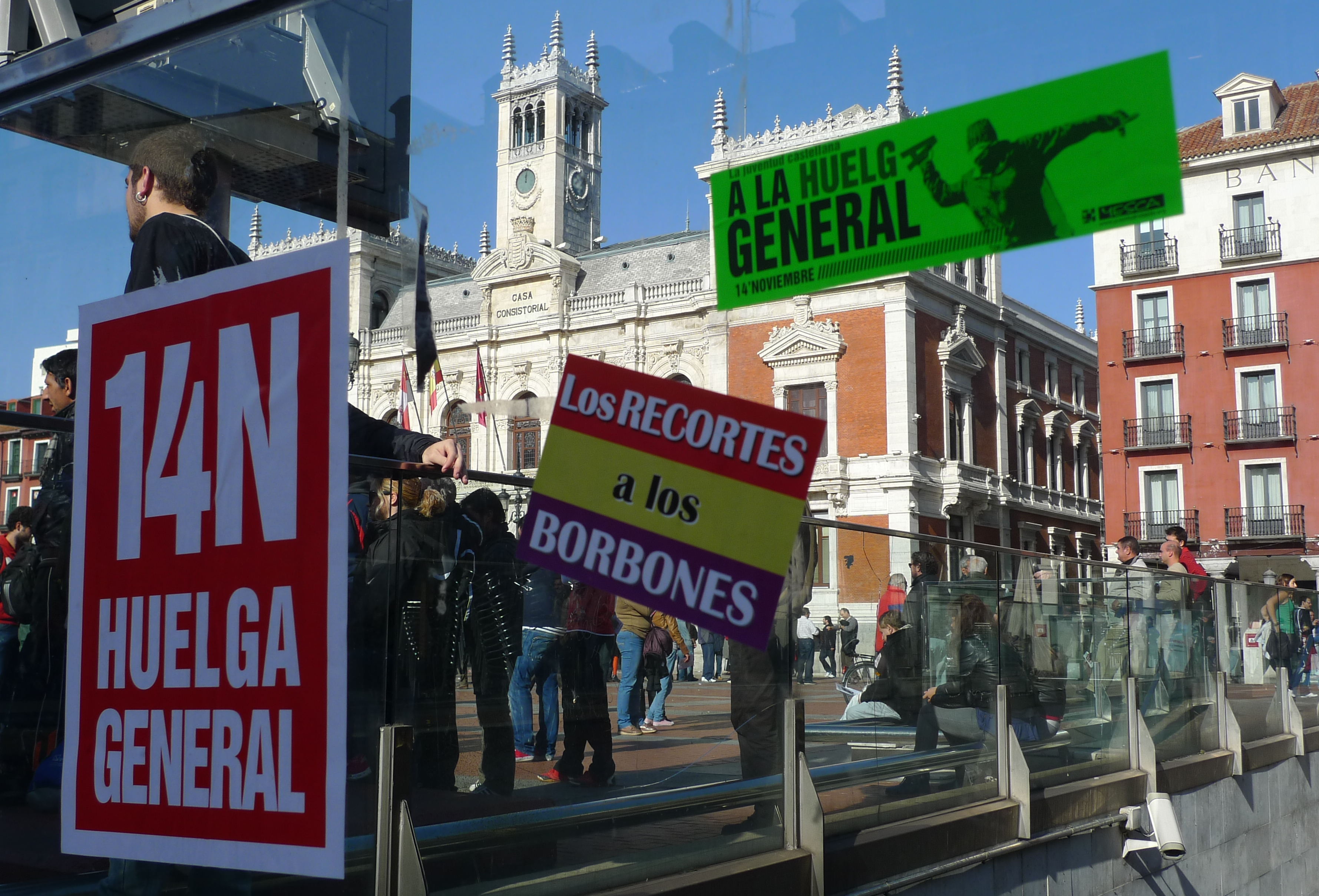 General Strike Spain November 14, 2012 Valladolid Plaza Mayor